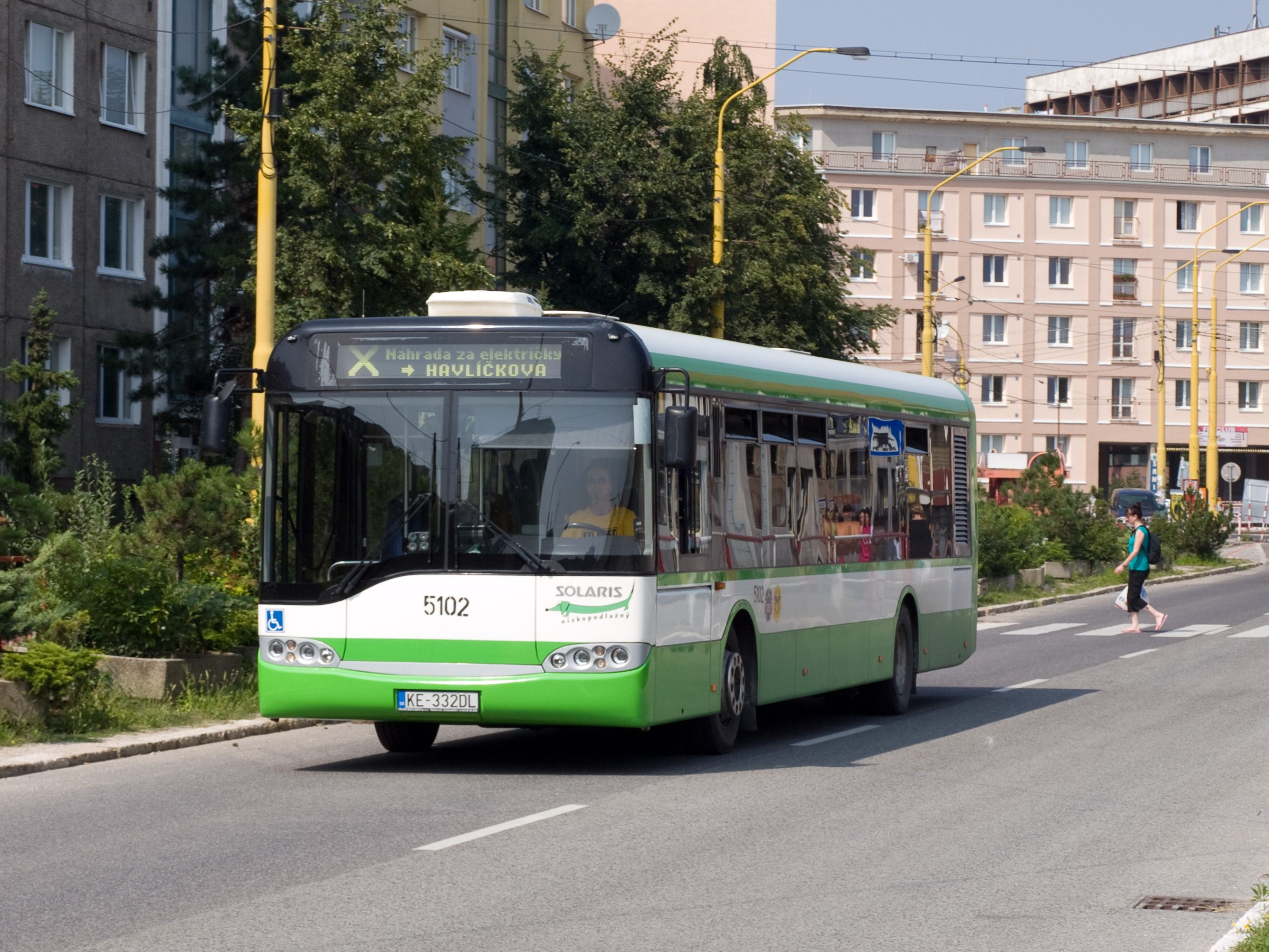 Solaris Urbino 12 Mk2 bus (#5102) in Košice, Slovakia. Built 2004, DP Košice operator.